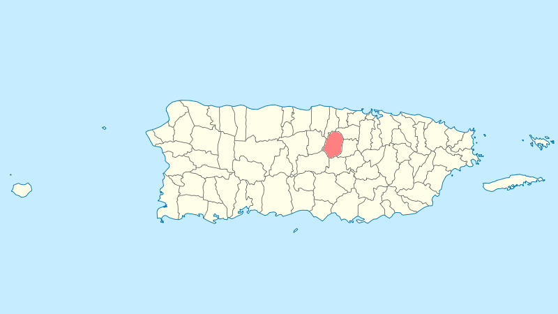 Municipal locator of Puerto Rico